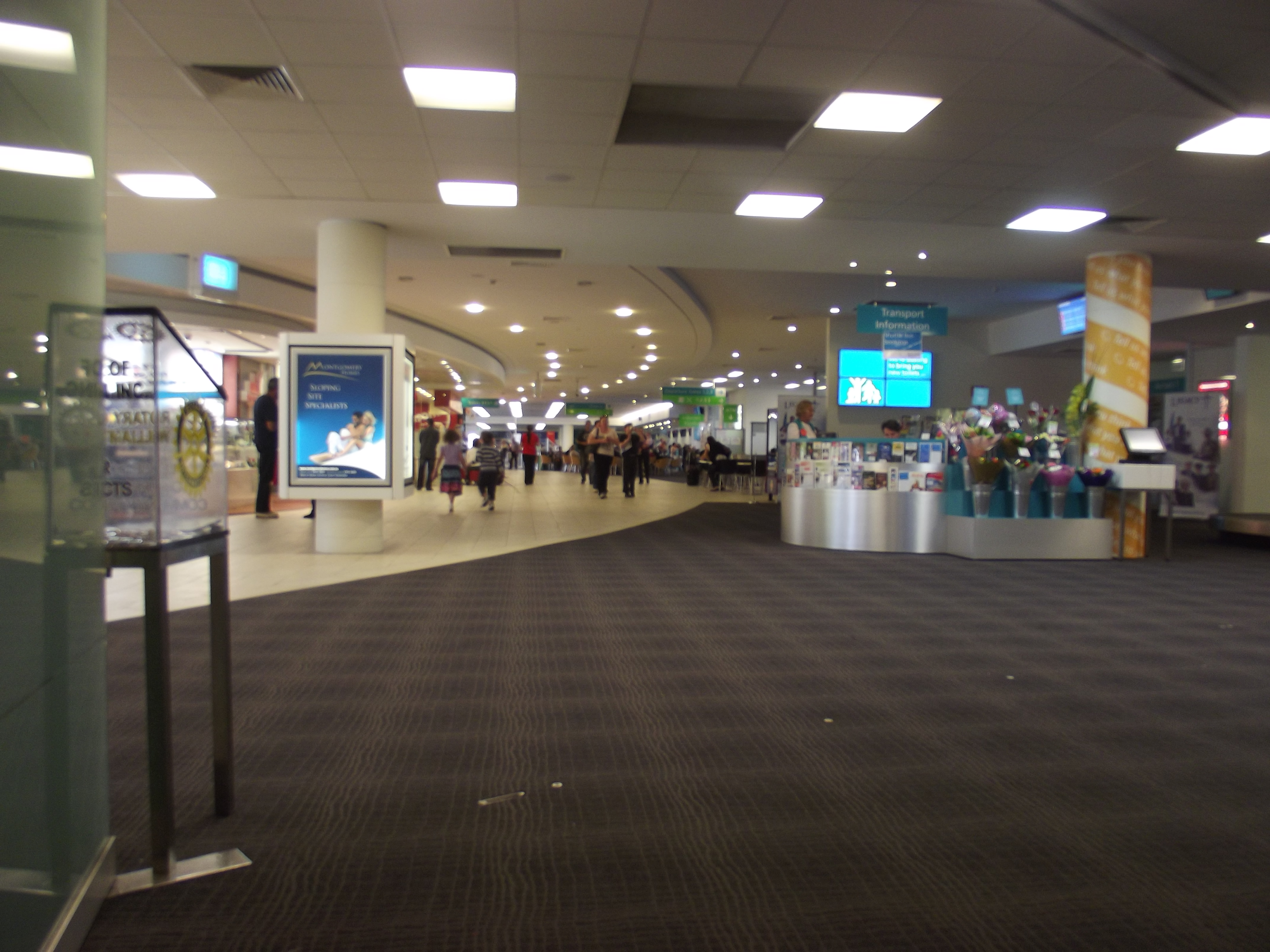 Inside the Newcastle Airport to show part of the airport what it looks like.